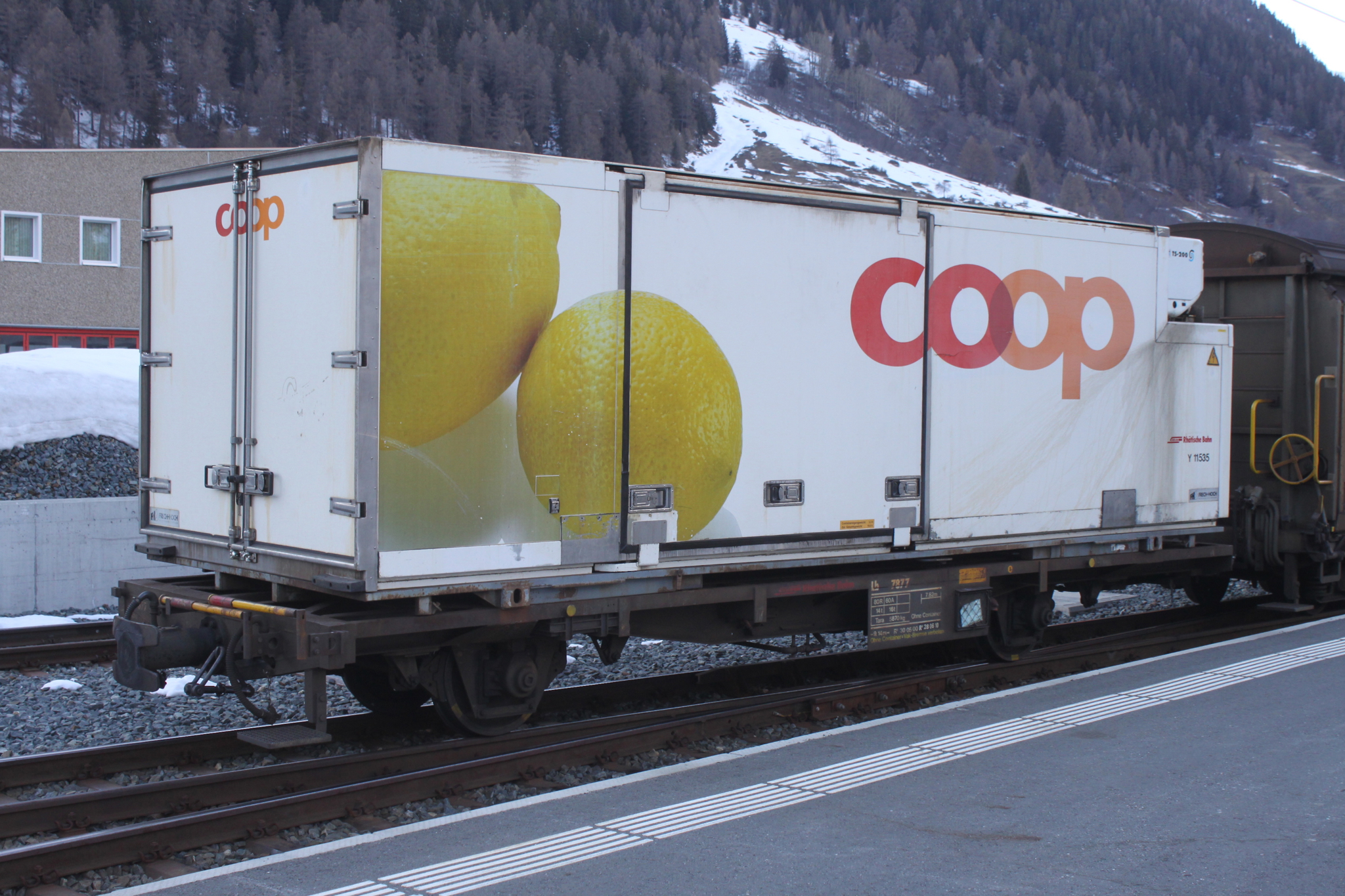 RhB Lb 7877 at Zernez train station.